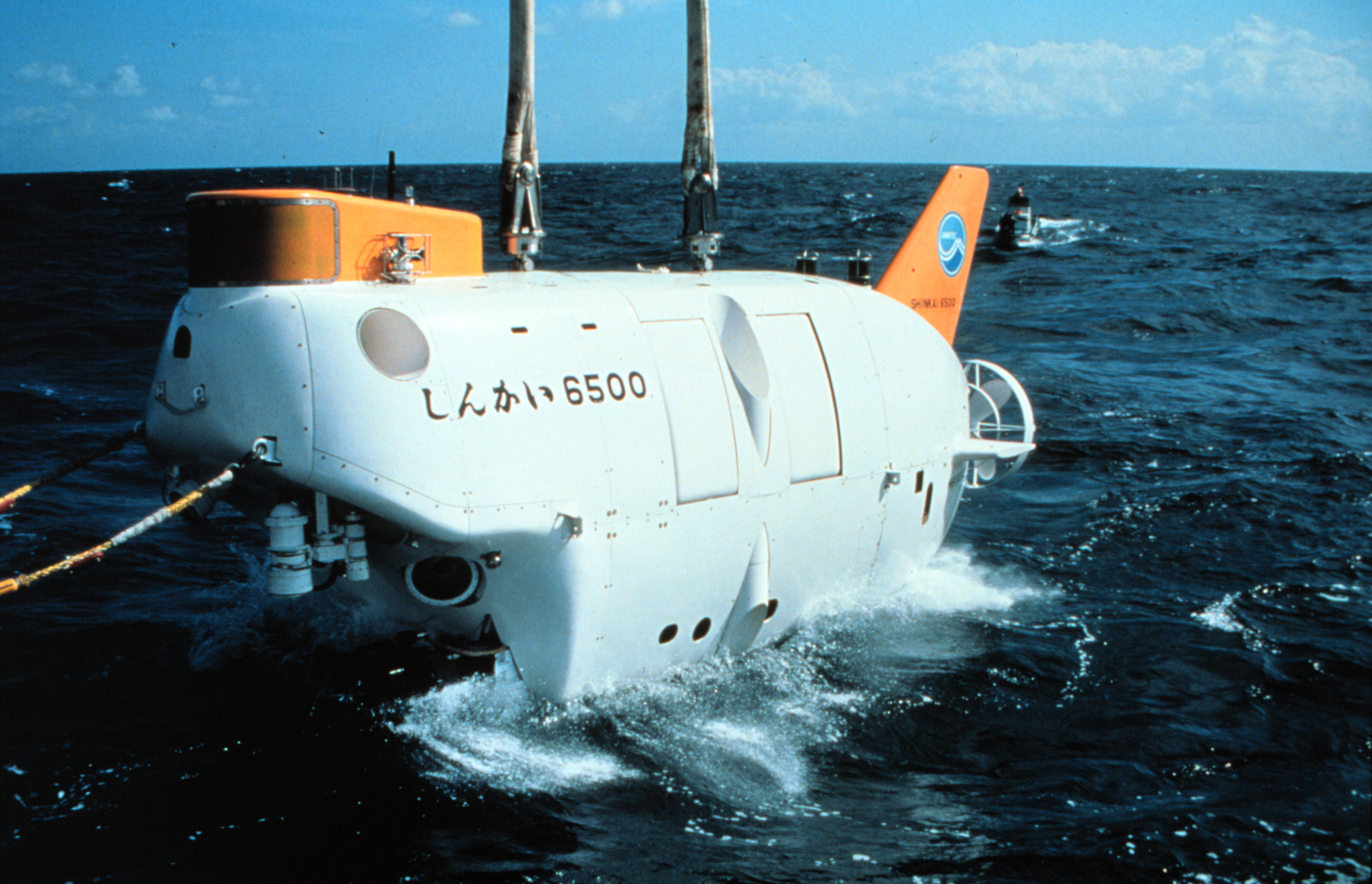 Shinkai 6500. Voyage To Inner Space - Exploring the Seas With NOAA Collect. Location: Japan OAR/National Undersea Research Program (NURP); JAMSTEC